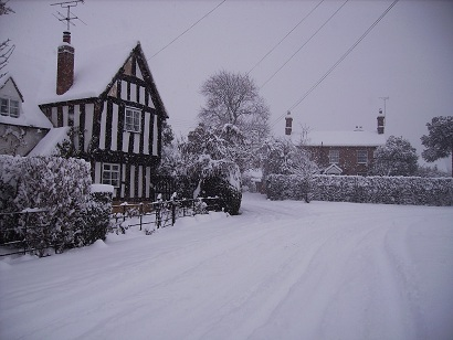 Childswickham, taken in December 2010.